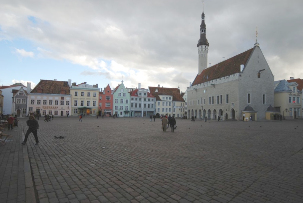 Town Hall Square (Raekoja plats), Tallinn. Town Hall Square with the Town Hall (Raekoda) in view.